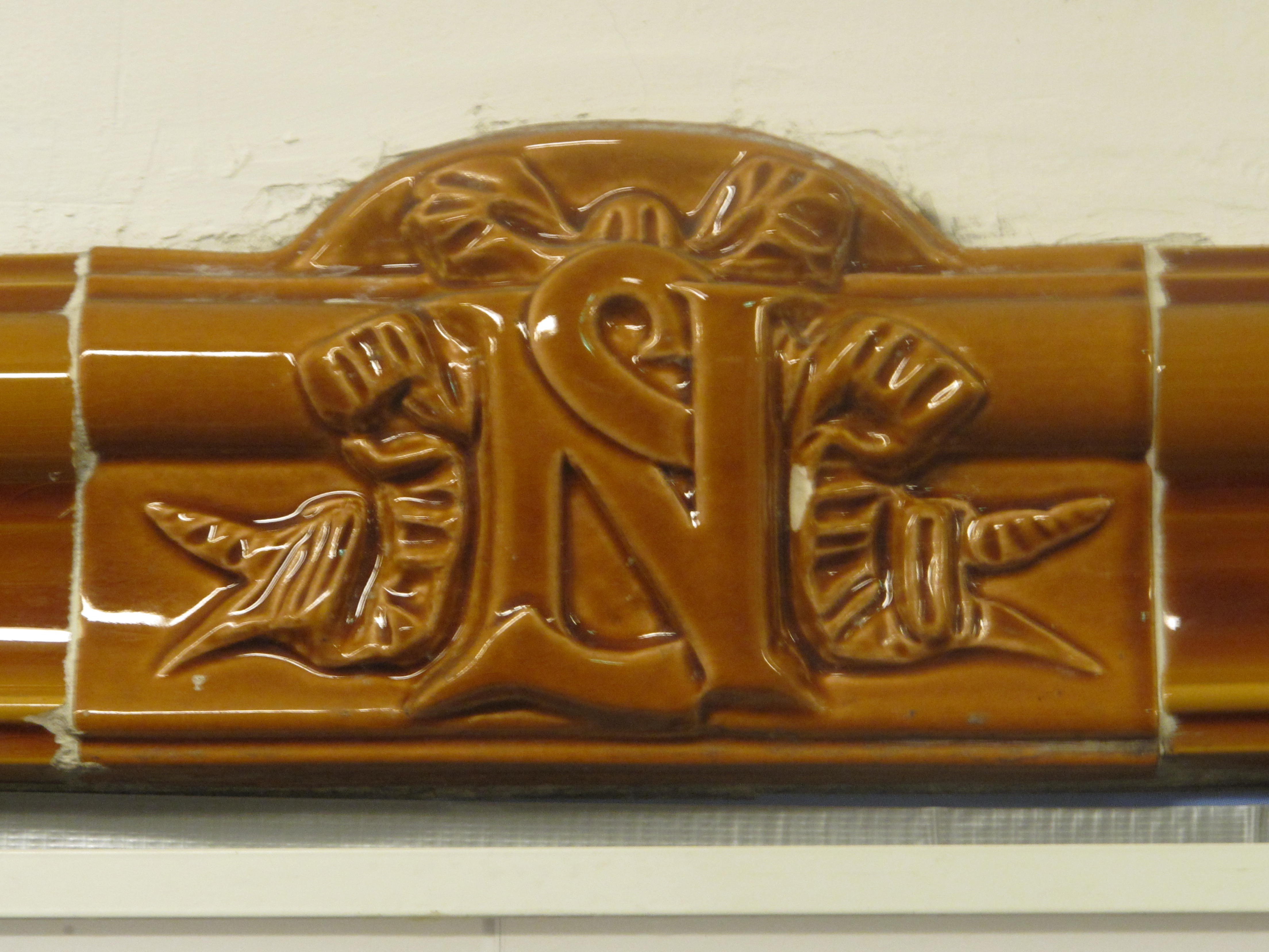 Monogram "NS" that we found all along the frames around the advertisement panels in the stations of the former metro company "Nord-Sud" (=North-South)